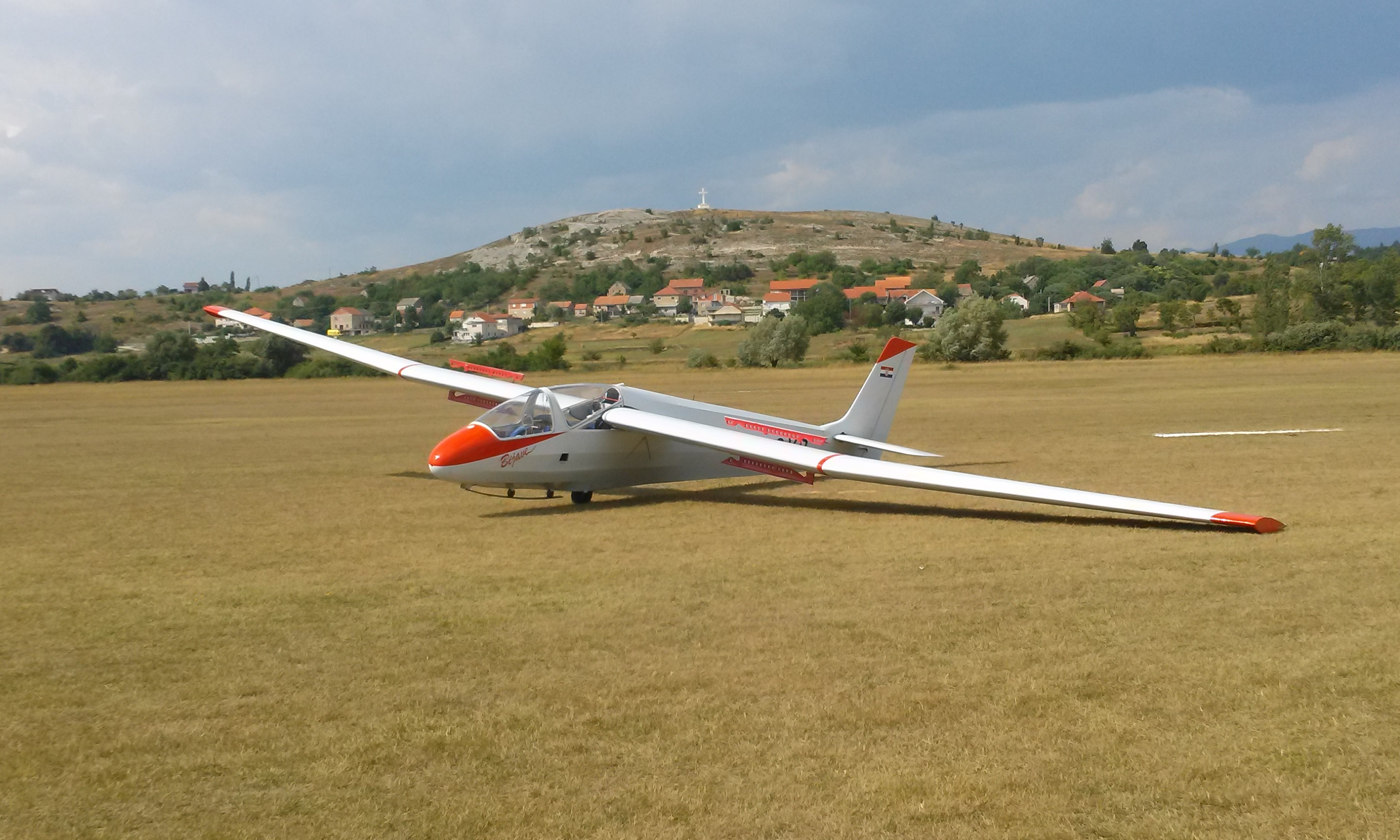 Aircraft on sports airfield Sinj in august 2015.